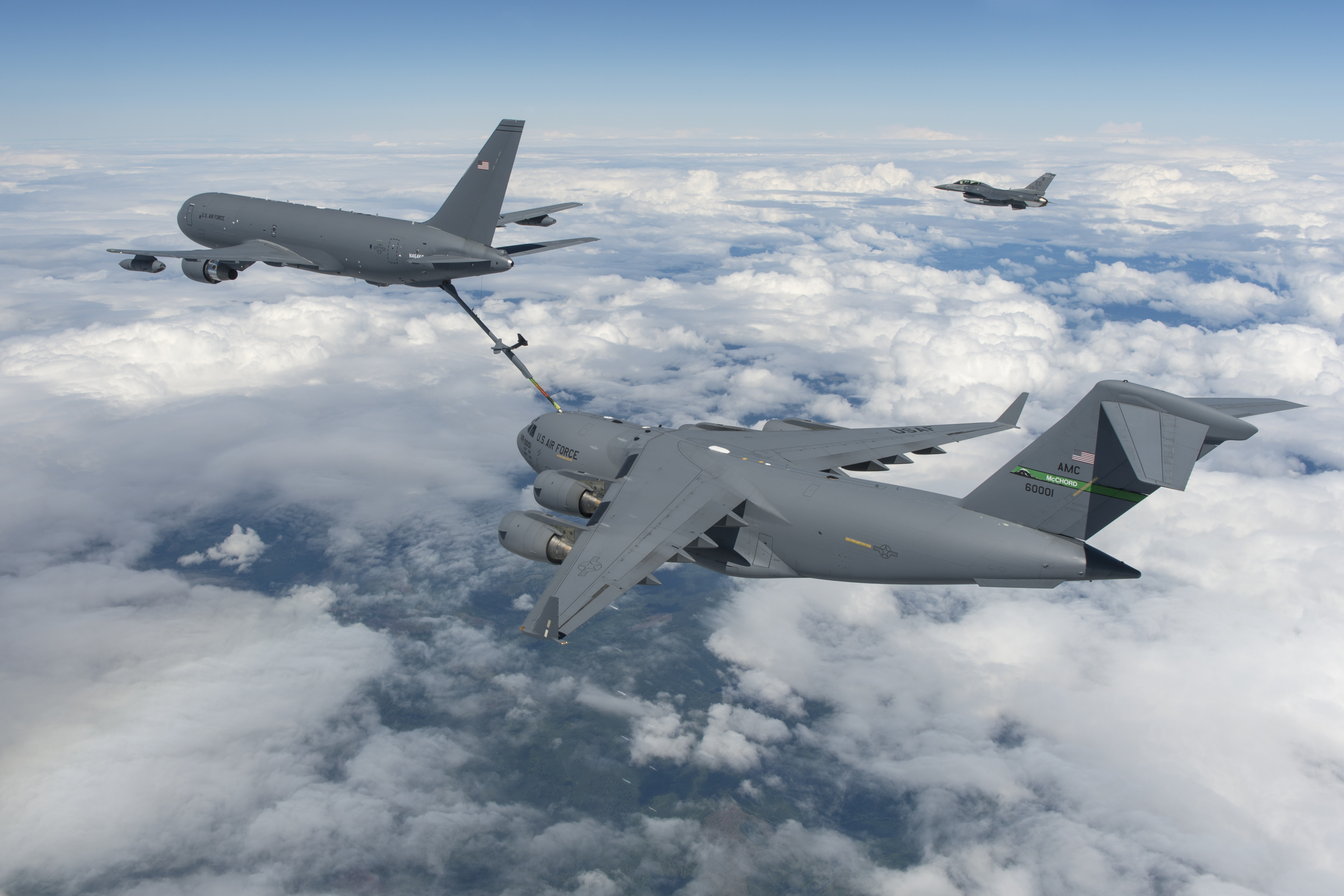 Boeing Flight Test & Evaluation - Boeing Field - KC-46, VH002, EMD 4, Test 003-05, KC-46 fuel offload to C-17, Milestone C